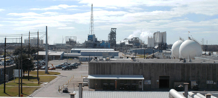 Pasadena, Texas near Houston Ship Channel